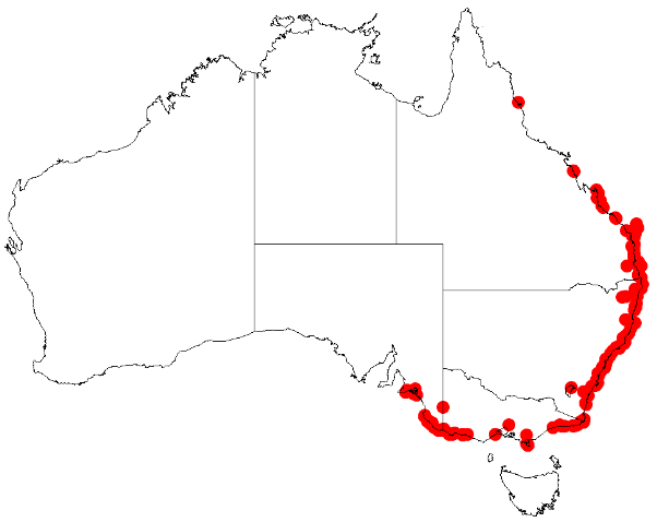 Scaevola calendulacea occurrence data from Australasian Virtual Herbarium downloaded 12 May 2019 (no doi)